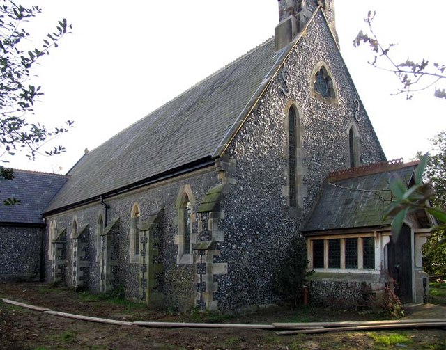 St John, Letty Green, Herts